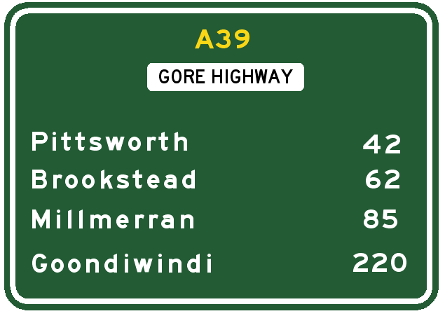 A39 Gore Highway AD Sign (From Toowoomba)